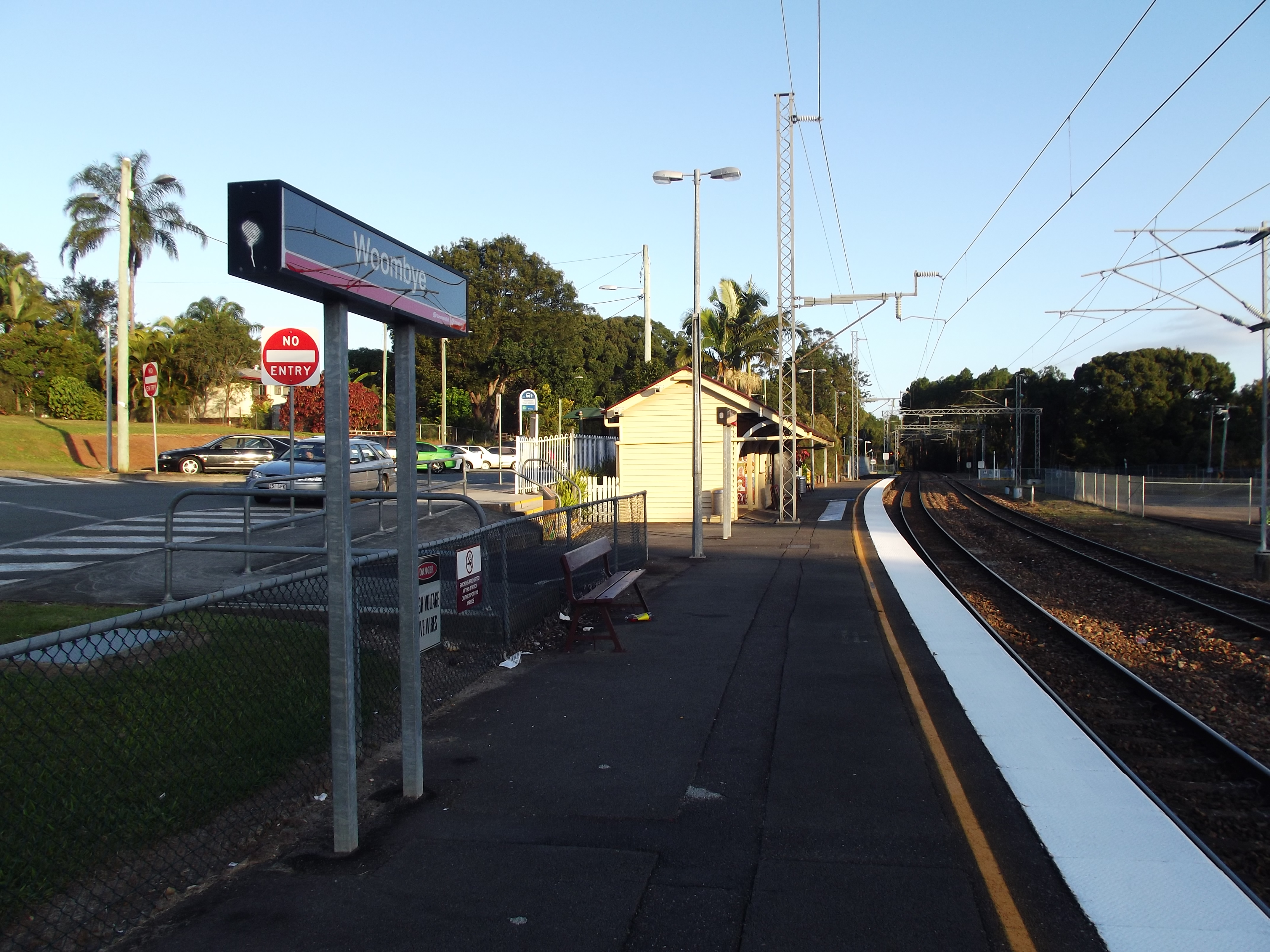 A photo of the Woombye railway station, operated by TransLink, located in Sunshine Coast, Australia.